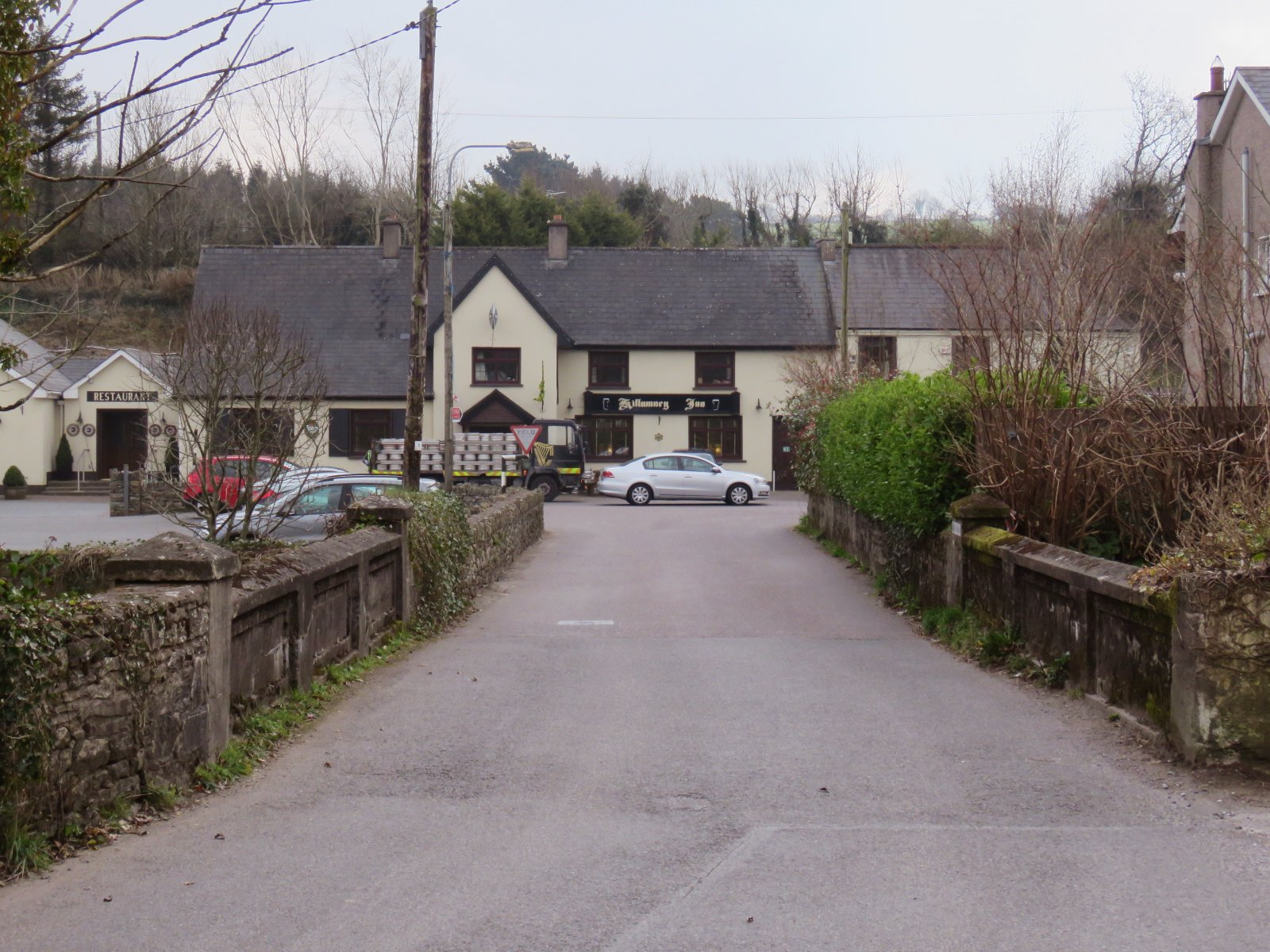 Killumney Inn